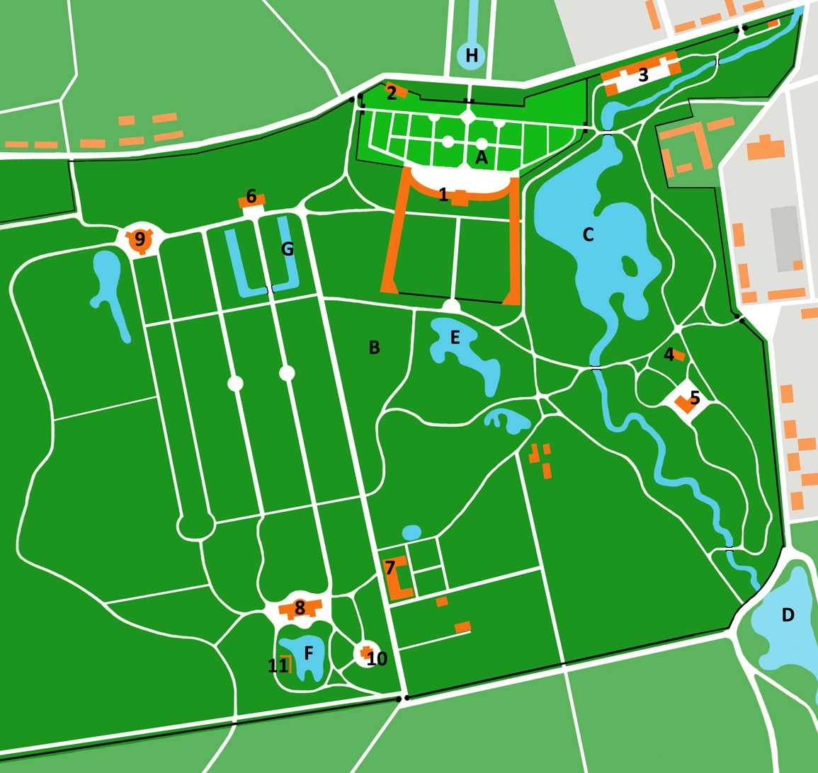 Map of the park in Oranienbaum, Russia. A - Lower garden; B - Upper park; C - Lower pond; D - Upper pond; E - Karpin (Carp) pond; F - Chinese pond; H - Sea channel 1 - Grand Menshikov Palace; 2 - Picture gallery; 3 - Lower houses; 4 - Gates of Honour of the Peterstadt fortress; 5 - palace of Peter III; 6 - Kamennoe zalo (Stone Hall) pavillion; 7 - Cavalier house; 8 - Chinese Palace; 9 - Katalnaya Gorka (roller coaster) Pavilion; 10 - Chinese Kitchen Pavilion; 11 - Pergola